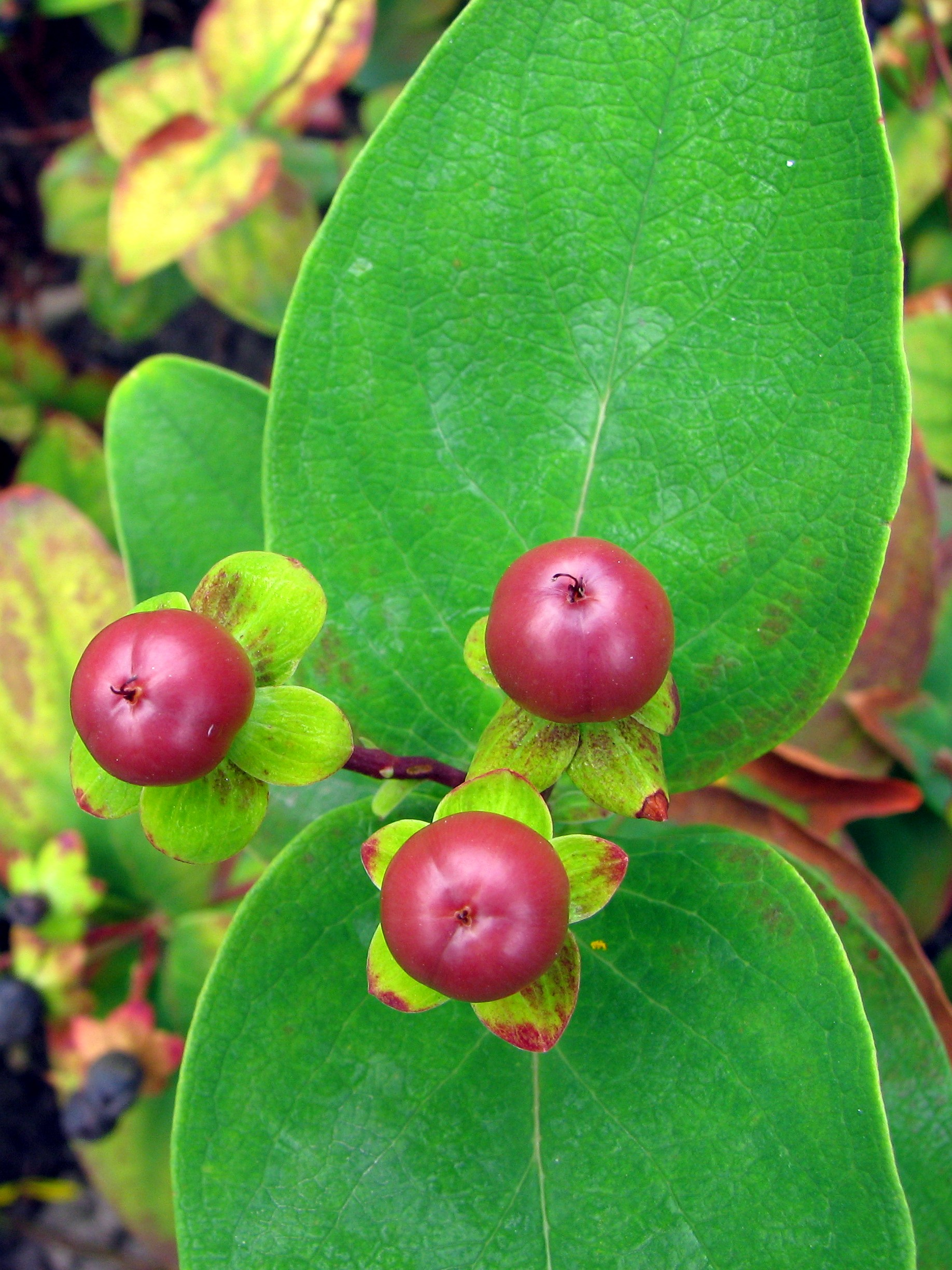 Sweet-amber Hypericum androsaemum young fruits, plant cultivated in Wrocław University Botanical Garden, Poland.